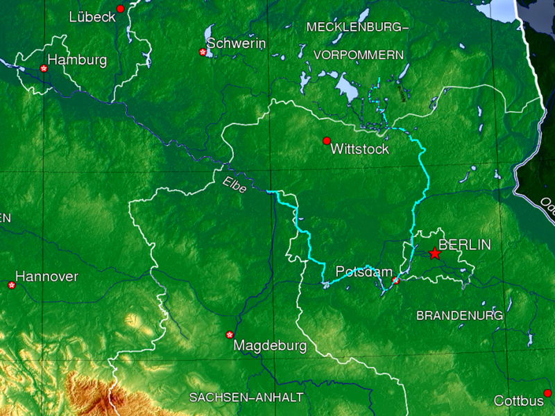 the River "Havel" in North-East-Germany with springplace next "Ankershagen" and estuary next "Havelberg"